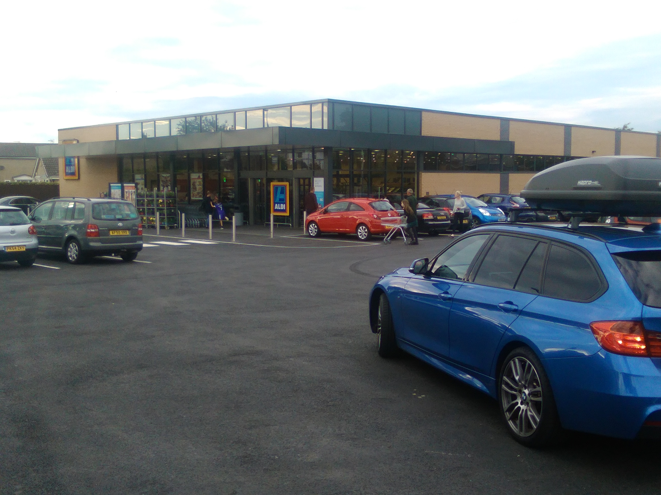 Opening day, Aldi, Deighton Road, Wetherby, West Yorkshire. Taken on the evening of Thursday the 13th of July 2017.